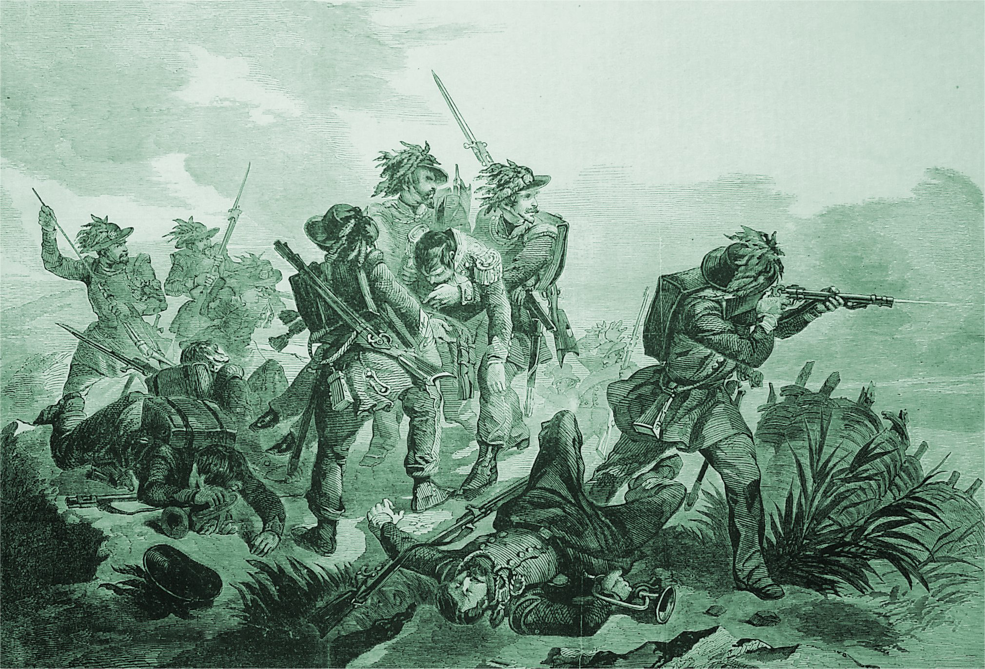 The Bersaglieri retrieving the body of Captain Charles Prola during clashes at the combat of Rivoli in Rivoli Veronese, Veneto, Italy, on 22 July 1848.